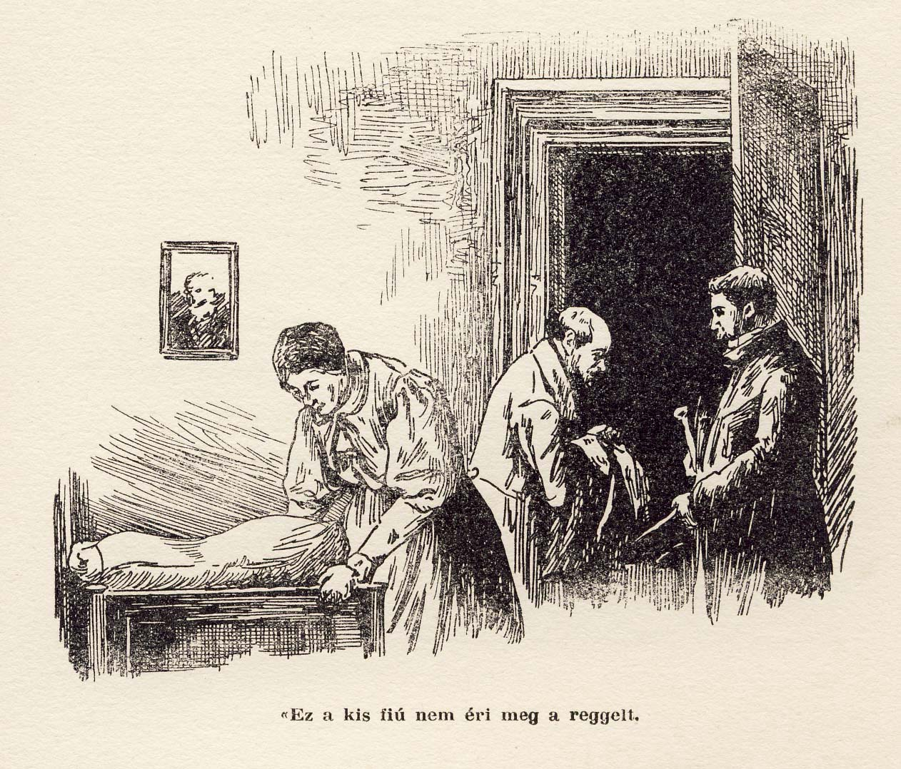 Ferenc Molnár: Pál street boys - The illustration of the first expense, 1907. Hungary, Budapest, Nr. 01.